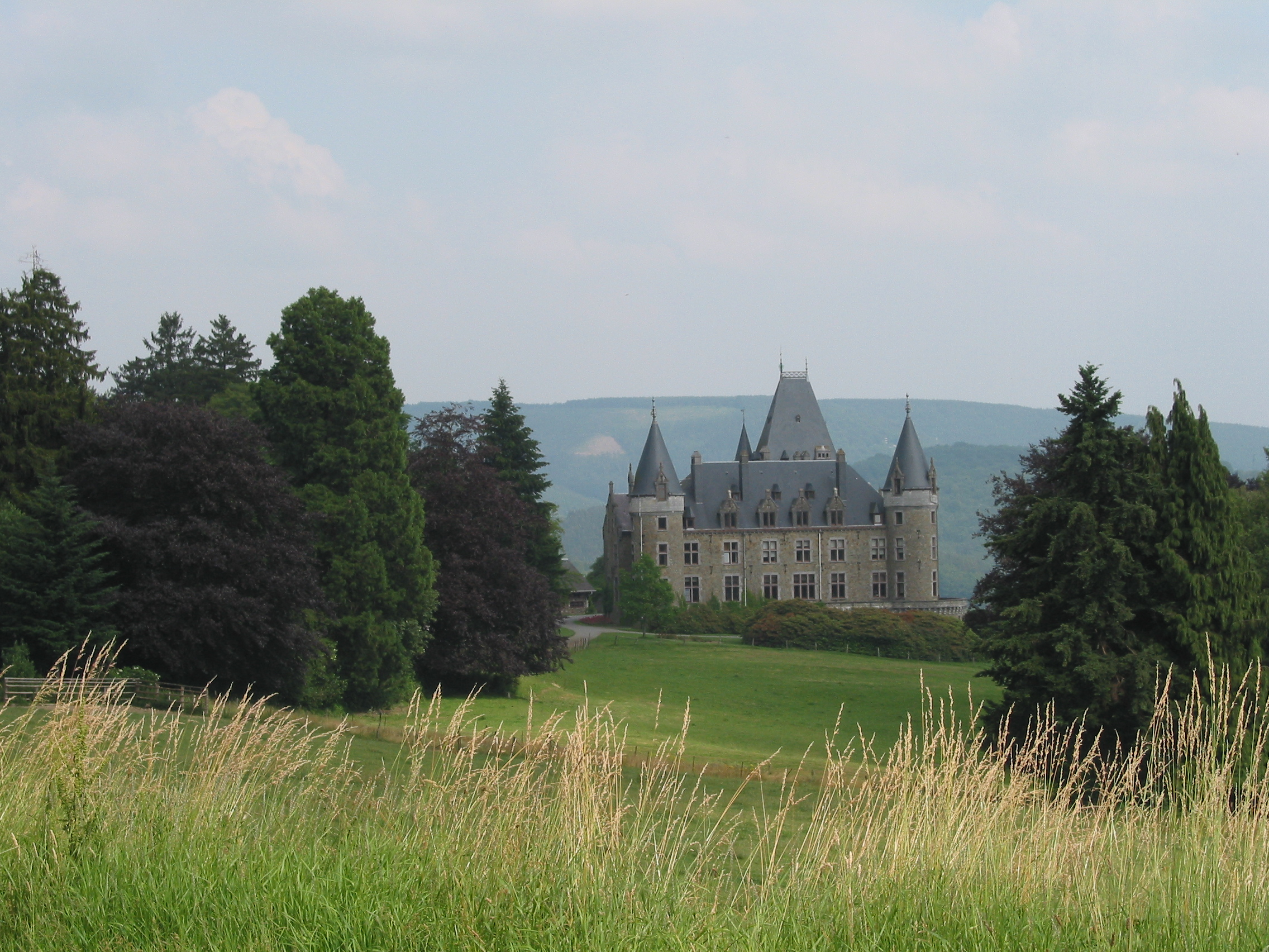 Stoumont (Belgium), the Froidcourt castle (1912).